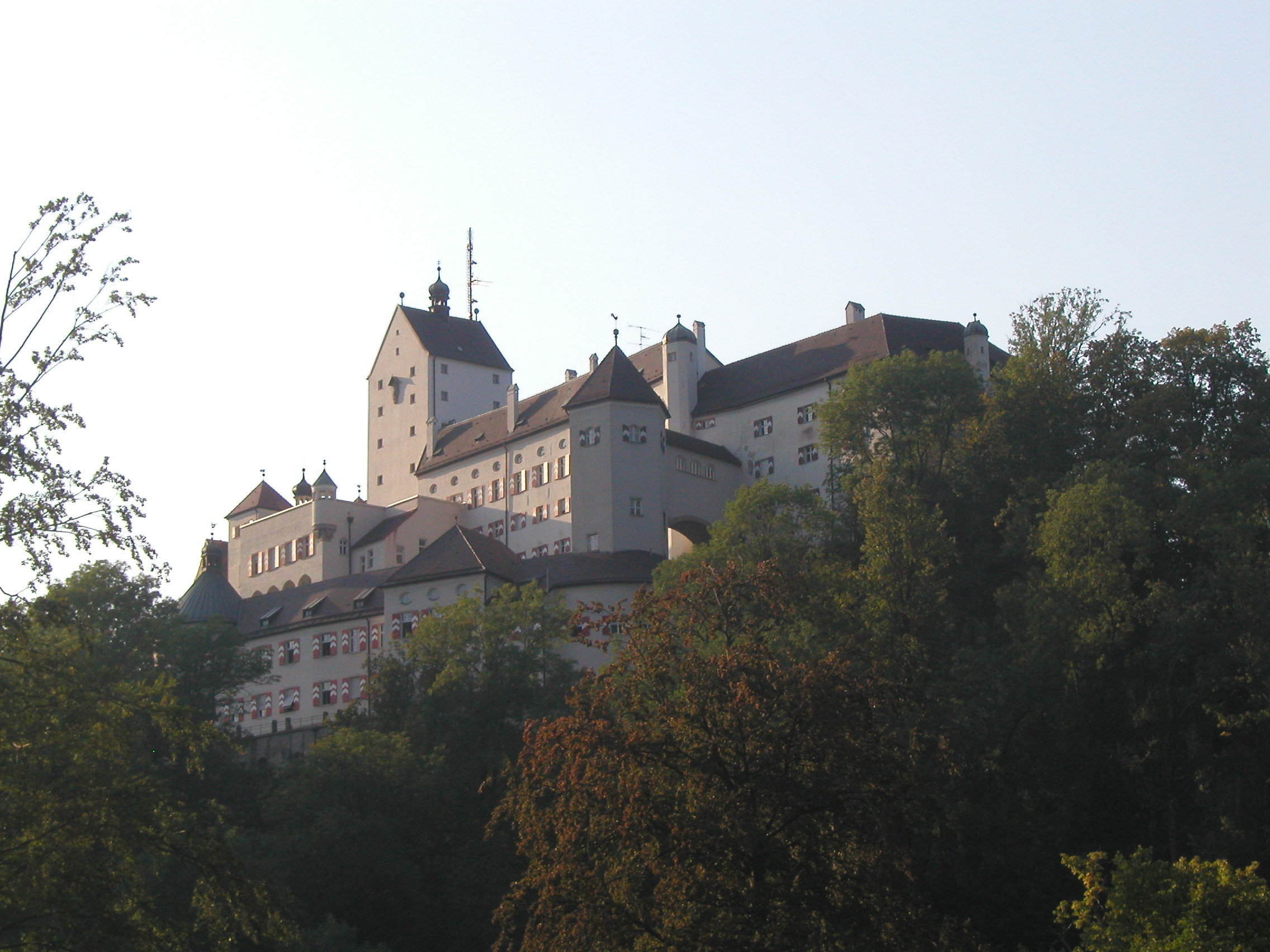 Castle Hohenaschau (Bavaria, Germany)